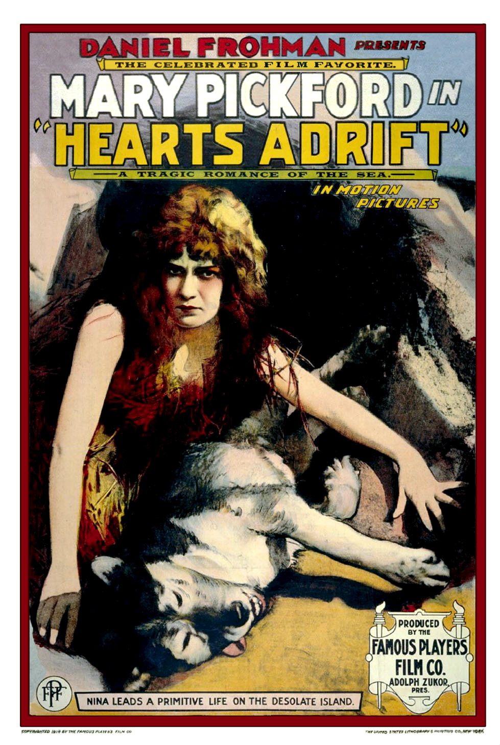 Poster from the 1914 American film Hearts Adrift.